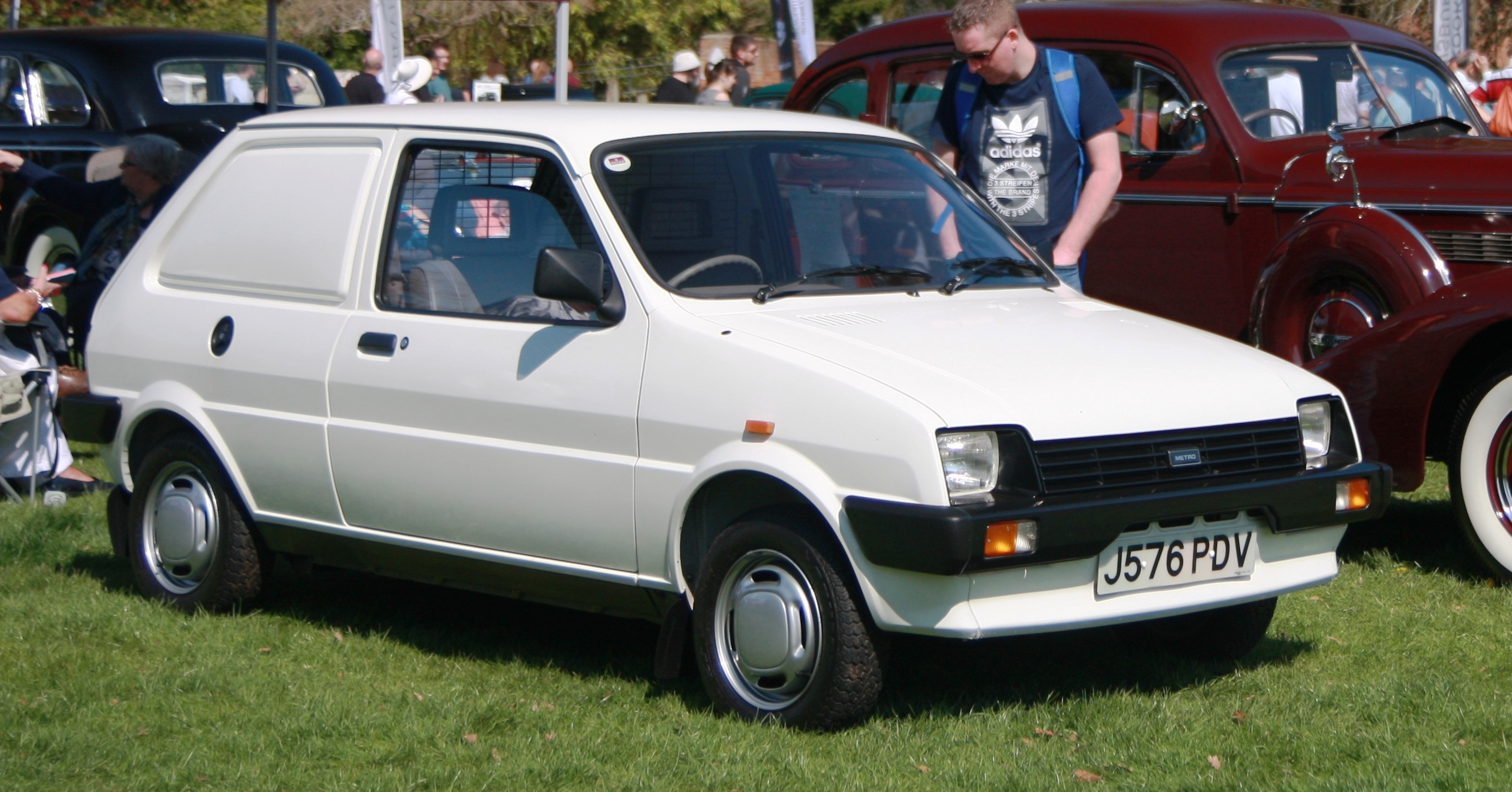 Mini Metro Van